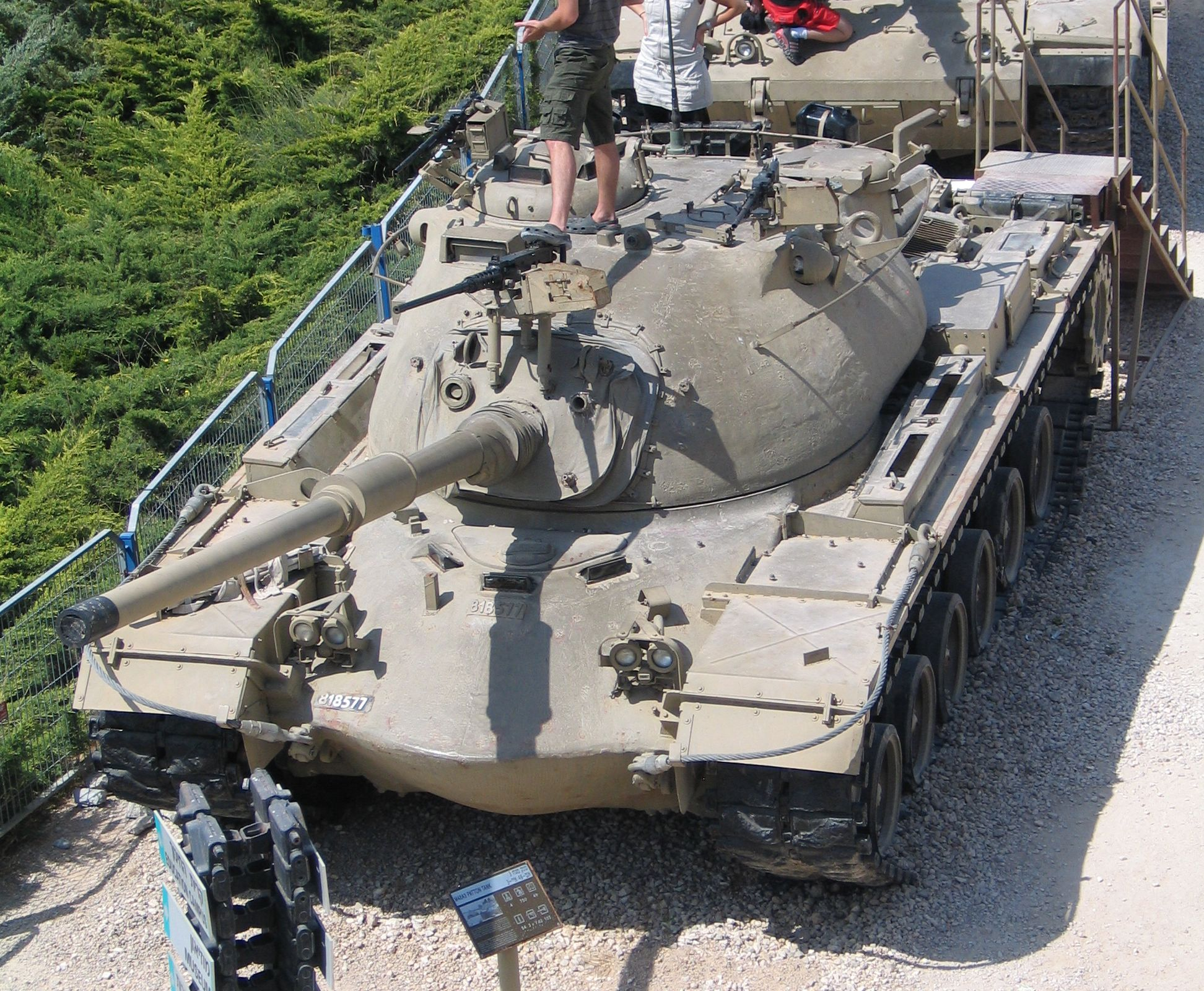 Upgraded M48A3 Patton tank (Magach 3) in Yad la-Shiryon Museum, Israel.